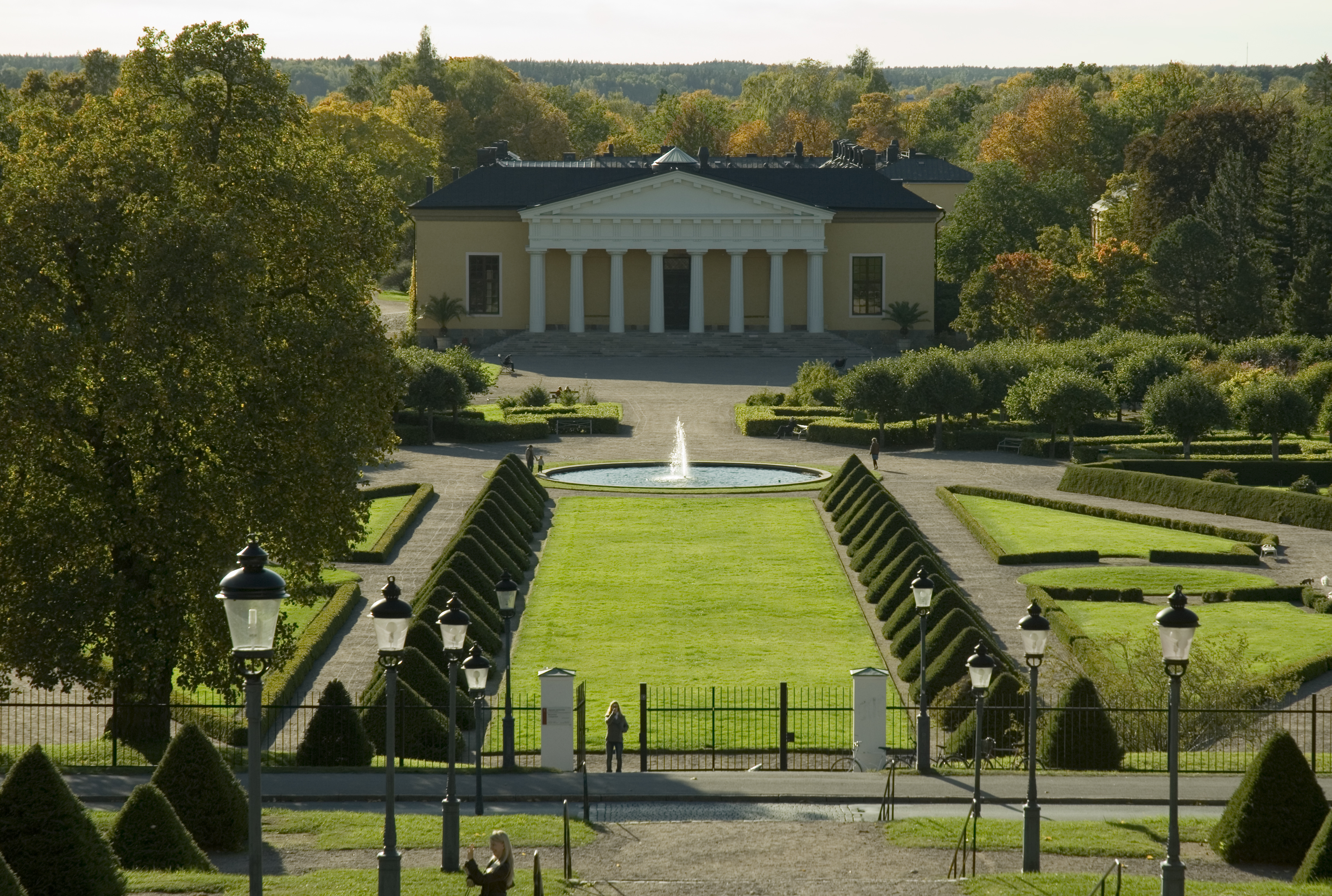 The Formal Garden and Orangerie of the Botanical gardens of Uppsala University — seen from Uppsala Castle, in Uppsala, Sweden.